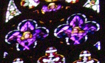 Gedächtniskirche (Memorial Church) in Speyer, Germany